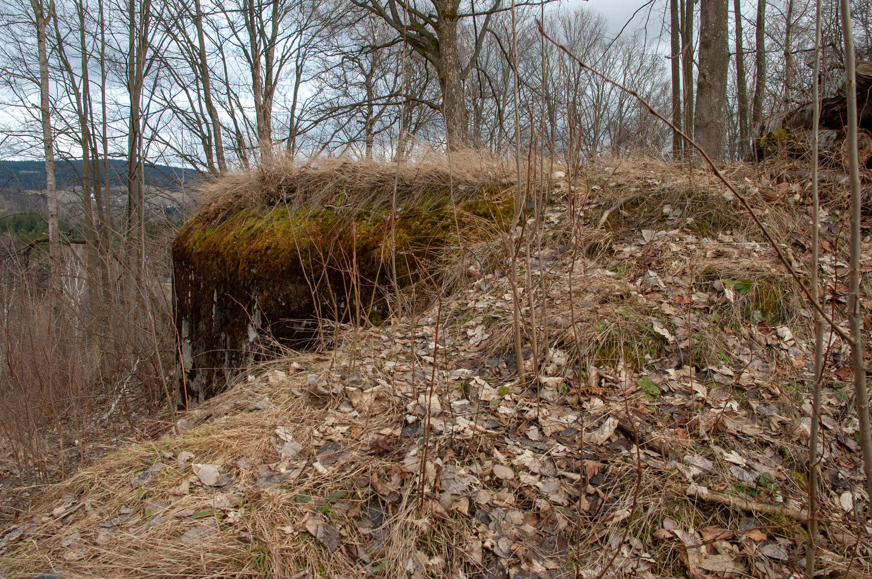 This image was created as a part of Editaton Prachatice (Czech).